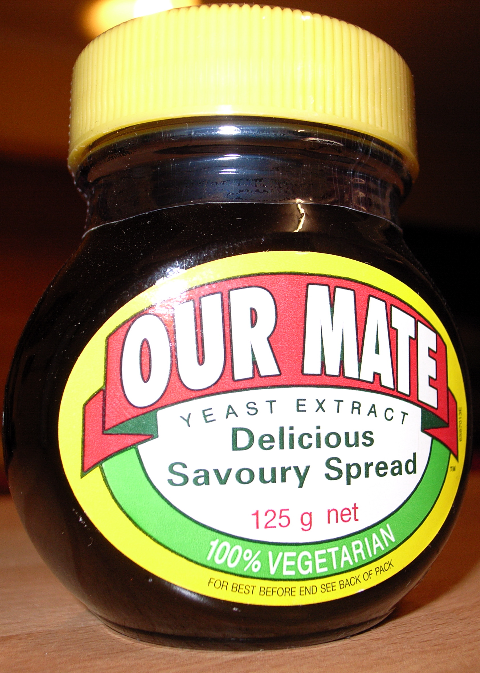 'Our Mate' - Jar of UK Made Marmite Spread branded for sale in Australia and New Zealand